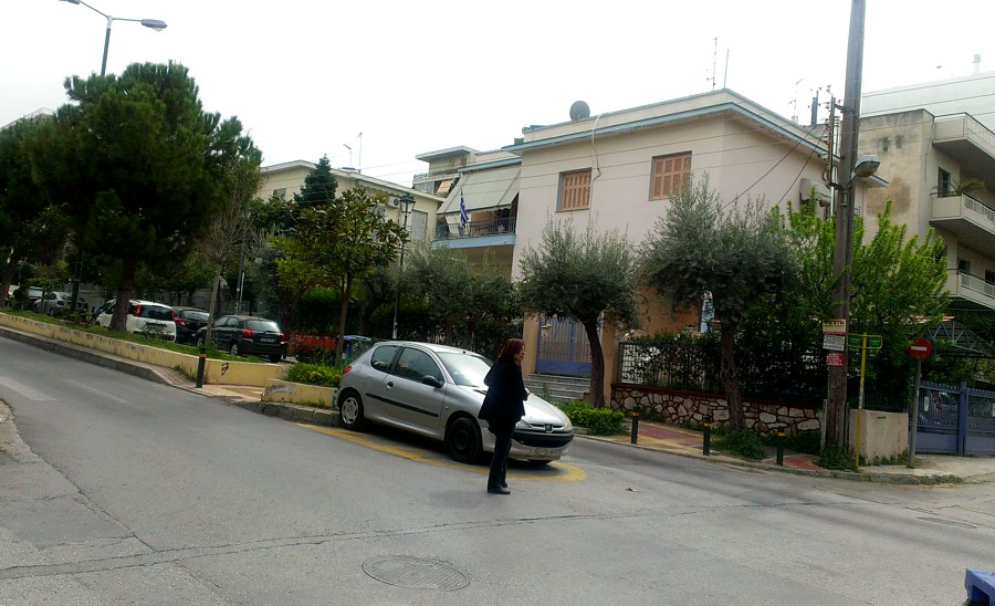 xolargos